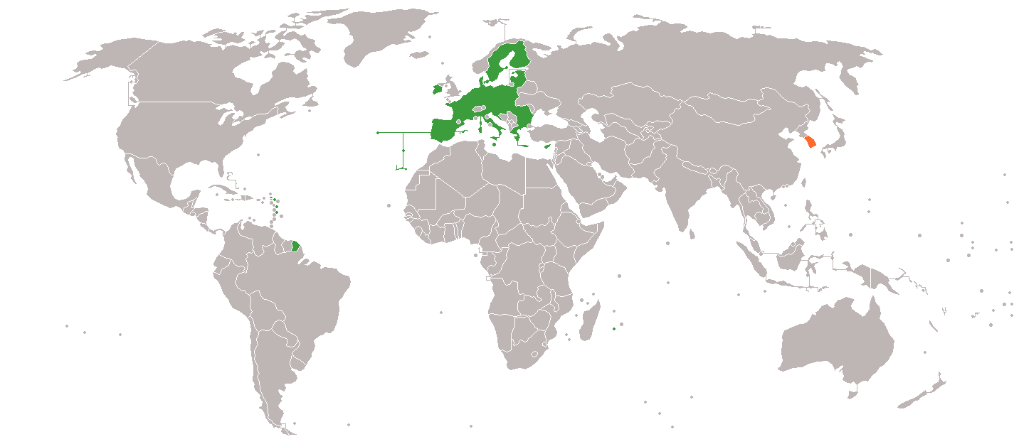 Locator of the European Union and South Korea